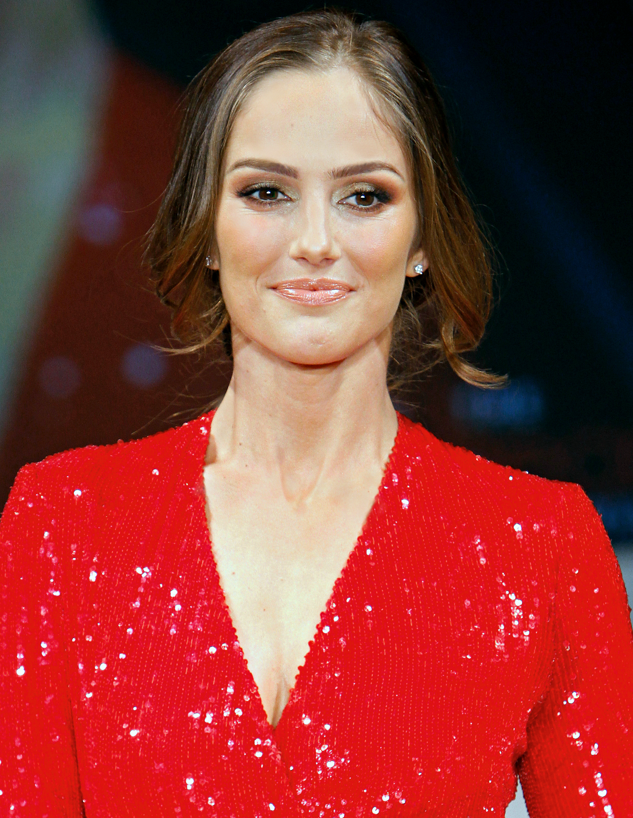 Minka Kelly: The Heart Truth's Red Dress Collection Fashion Show 2012.